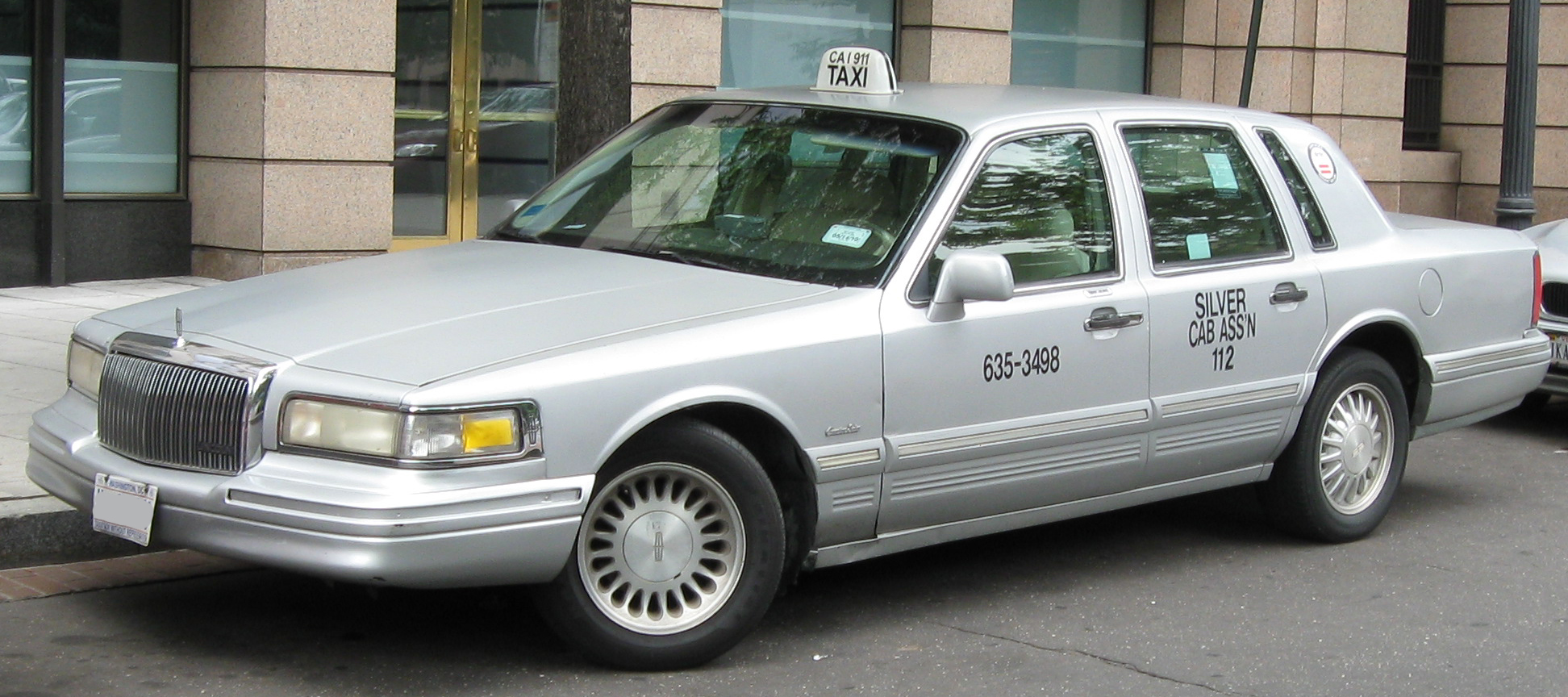 1995-1997 Lincoln Town Car photographed in Washington, D.C., USA.